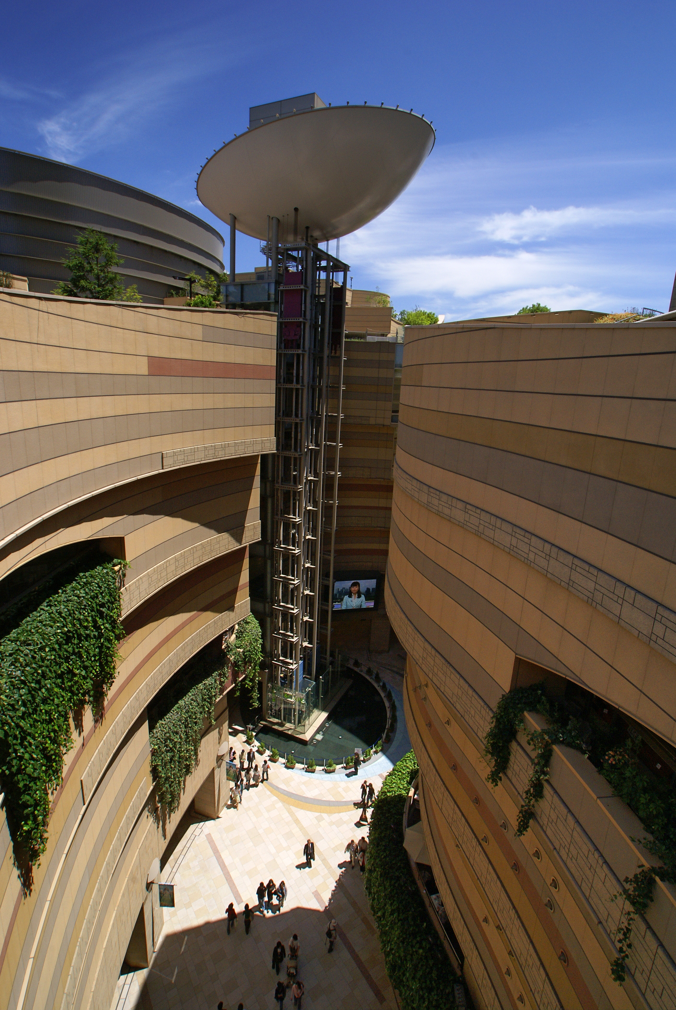 Namba Parks in Osaka, Osaka prefecture, Japan